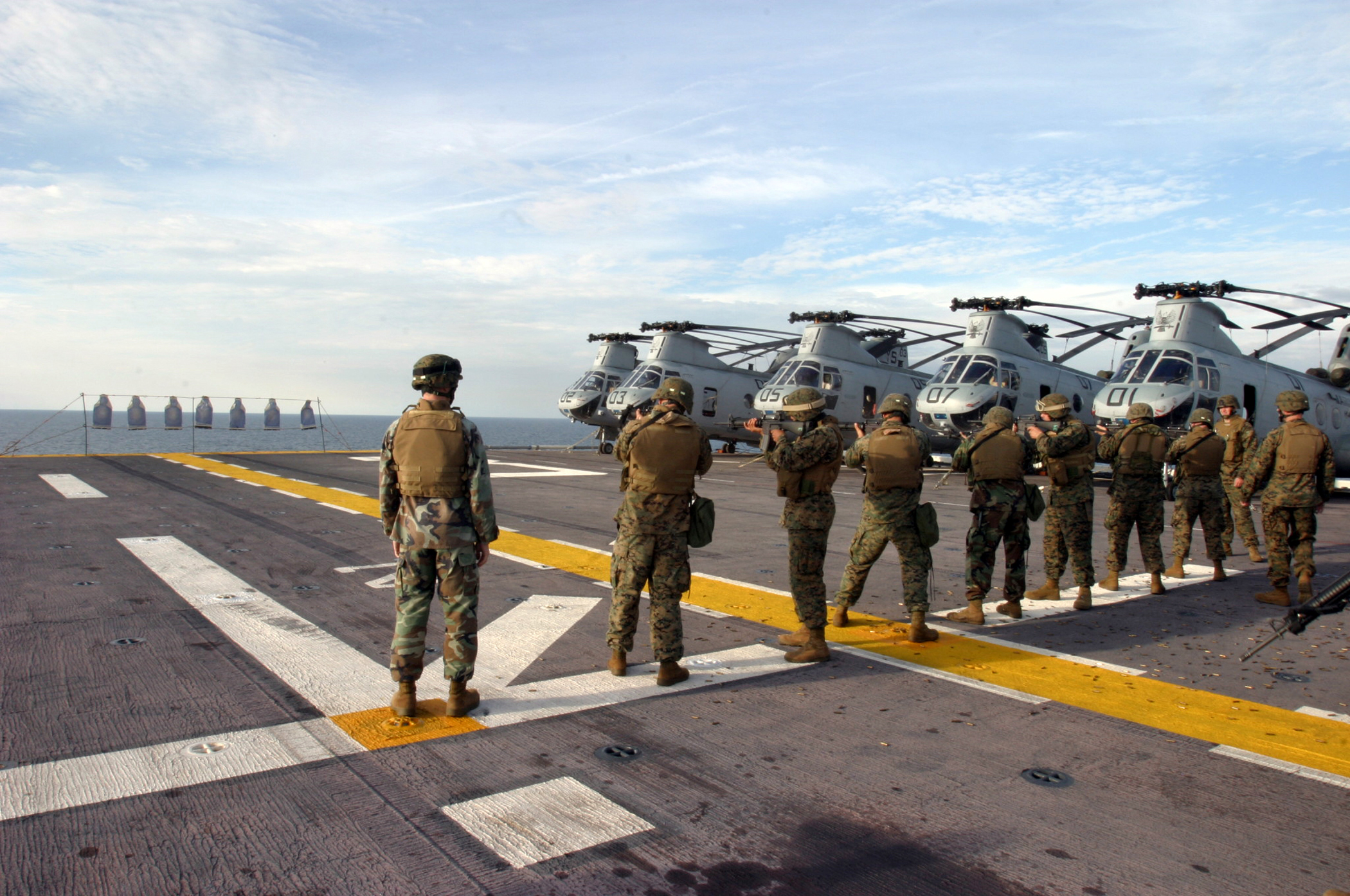 Persian Gulf (Nov. 19, 2004) – U.S. Marines assigned to Battalion Landing Team, 2nd Battalion, 8th Marine Regiment, 26th Marine Expeditionary Unit, send rounds down range during a live fire training exercise aboard the amphibious assault ship USS Kearsarge (LHD 3). The training is part of the Enhanced Marksmanship Program, which the battalion has conducted since their return from deployment last year. U.S. Marine Corps photo by Sgt. Roman Yurek (RELEASED)